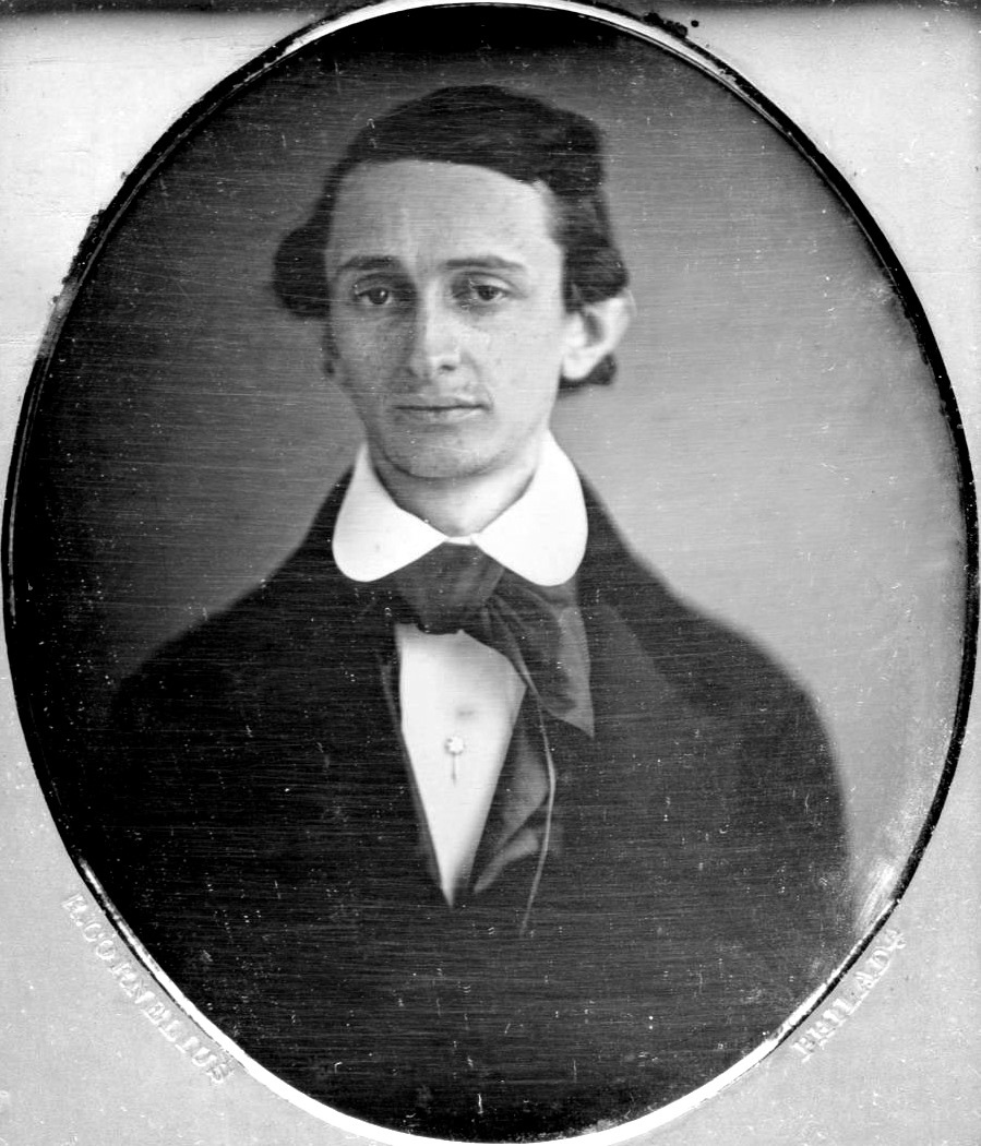 Charles John Biddle; sixth-plate daguerreotype